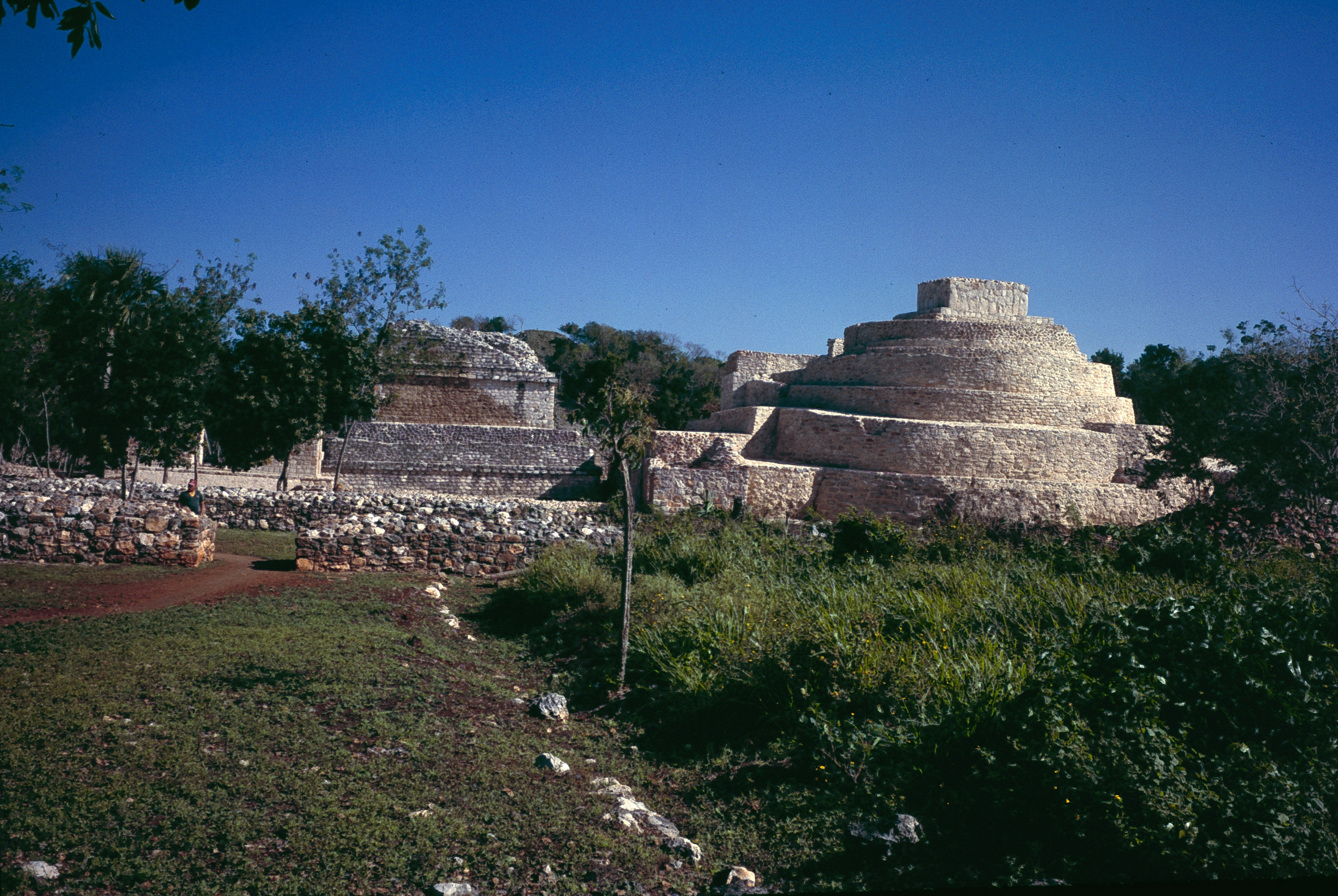 Ek' Balam, Yucatan, Mexico: Structure 16, rear